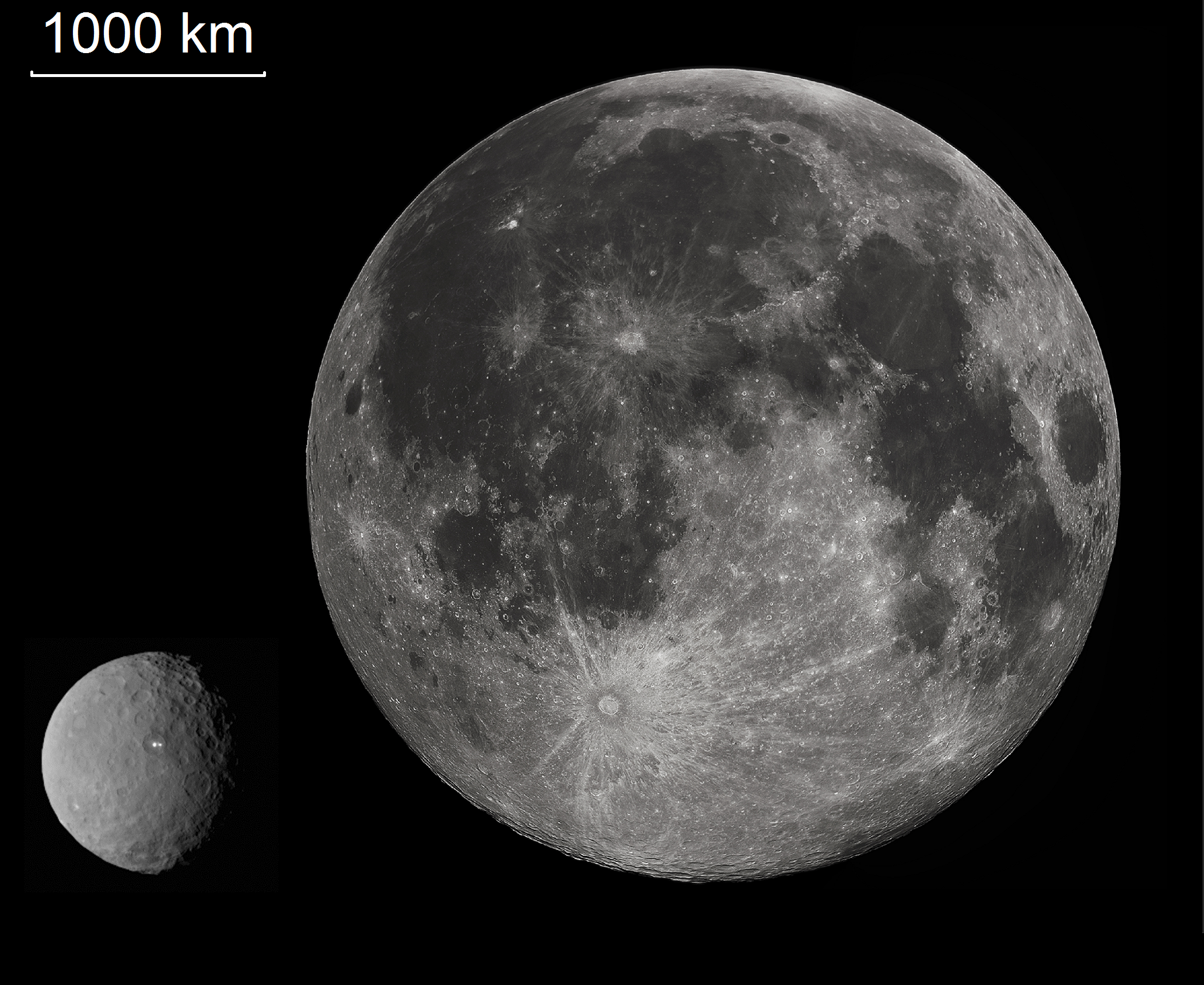 The Moon and dwarf planet Ceres to scale. The full-resolution image (2064*1688 pixels) corresponds to a scale of 0.4 pixel per kilometre (2.5 kilometres per pixel).